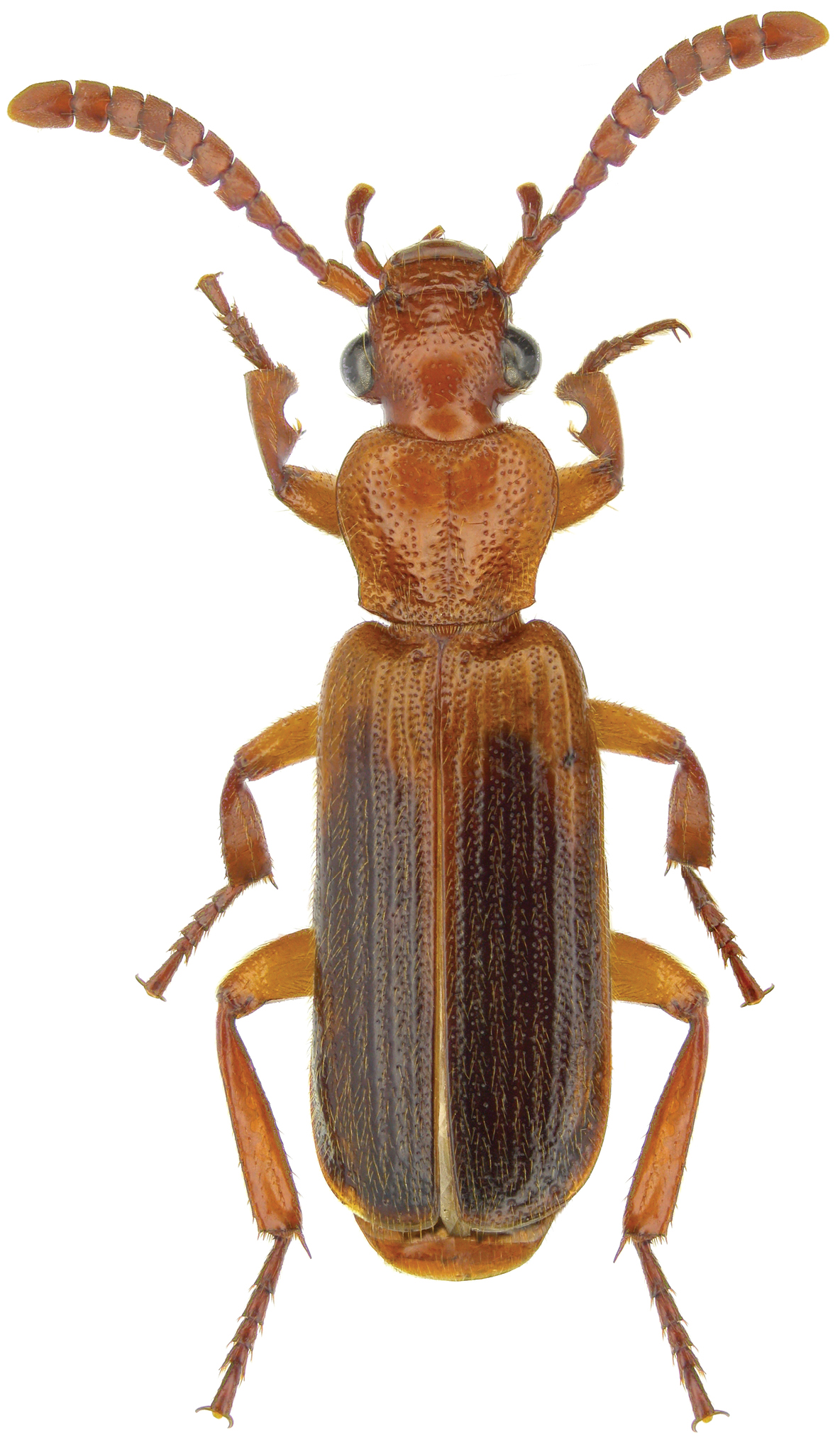 Helluomorphoides praeustus bicolor (Harris). Adults of most carabids are opportunist predators or scavengers but those of Helluomorphoides seem to have adopted a different, more dangerous life-style. Adults of two North American species have been observed to plunder foraging and migrating columns of army ant species of the genus Neivamyrmex and run away with their prey and broods. The beetles do not inhabit the ant nest or bivouac but can detect and follow the chemical trails of the ants at night. Whether this habit is common to all species of Helluomorphoides remains to be investigated.